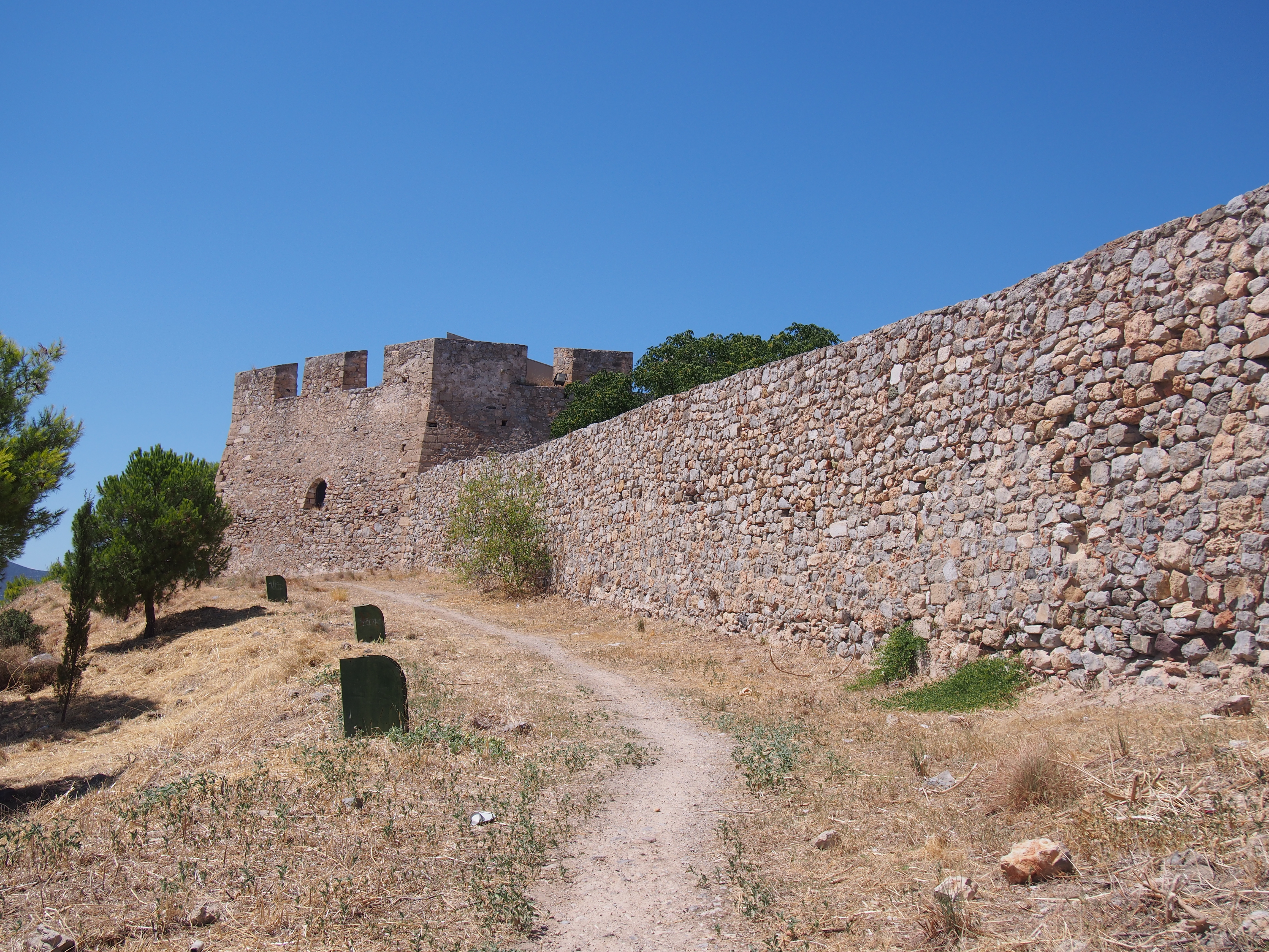 The walls of Karababas castle as seen from outside.